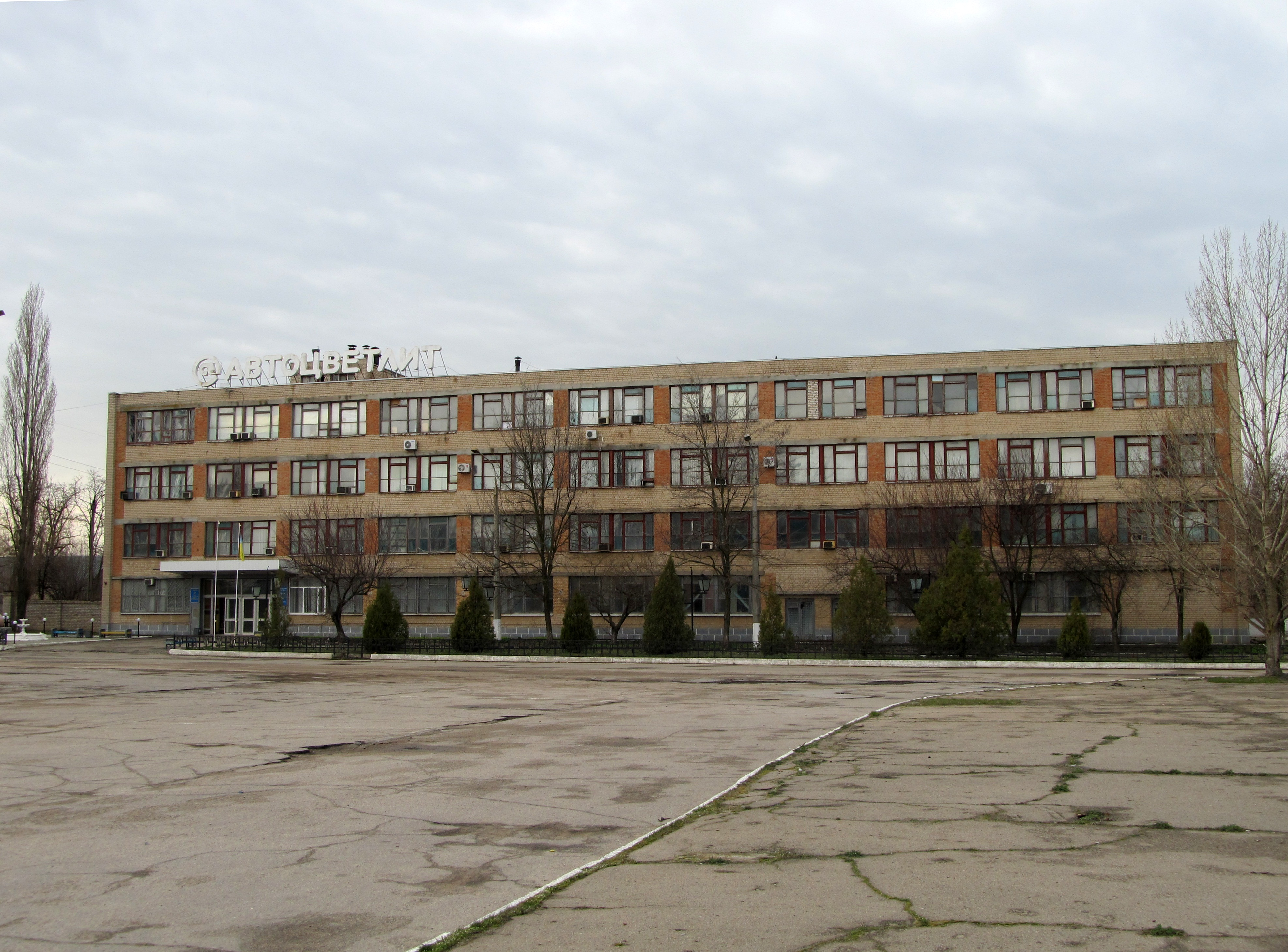 Timoshenko Square (Melitopol, Zaporizhia oblast, Ukraine).